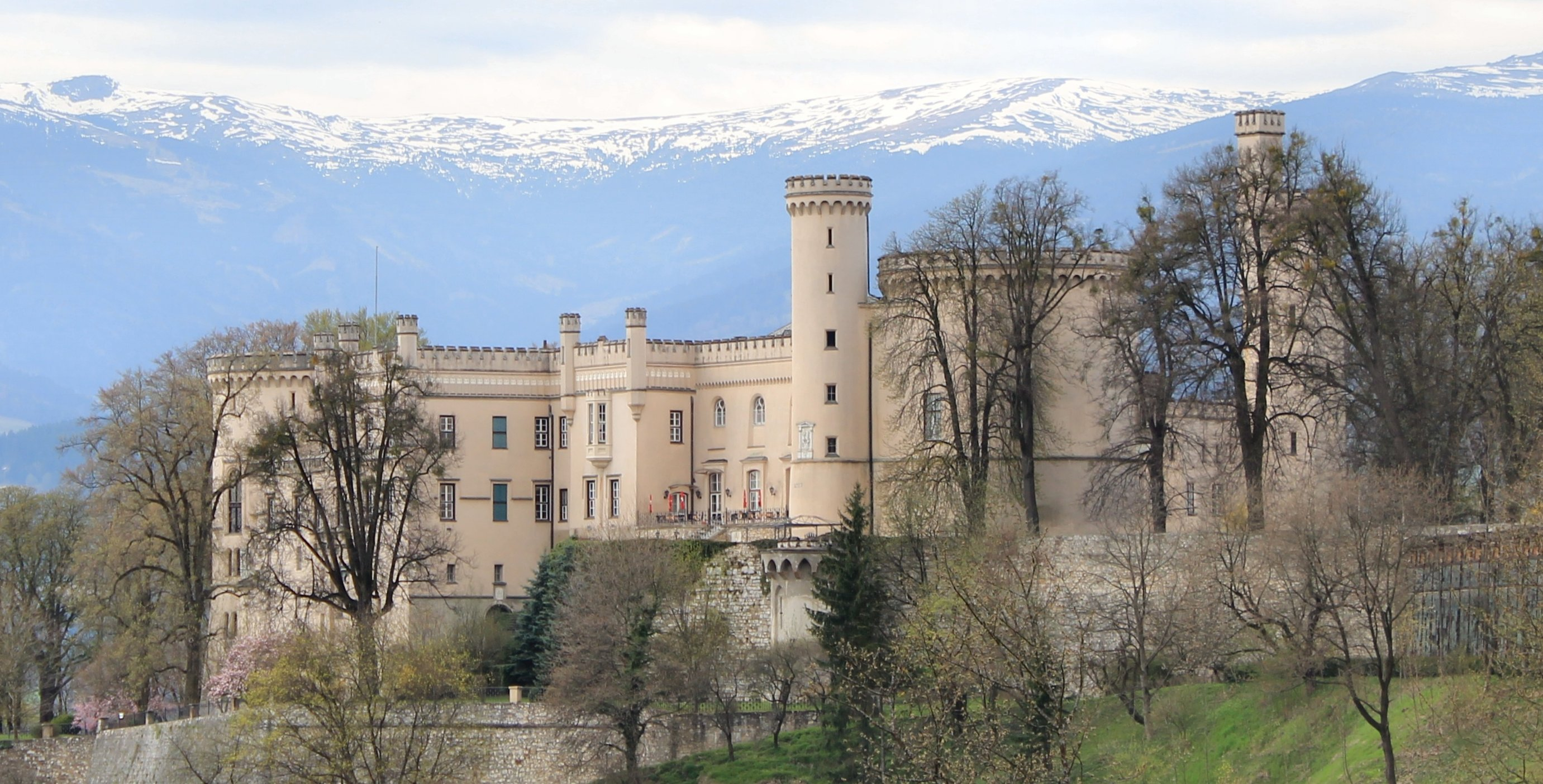 Wolfsberg castle in the community of Wolfsberg